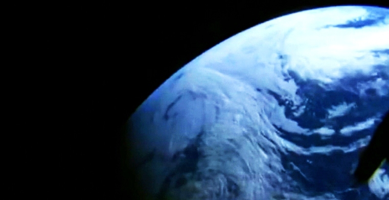 A camera in the window of NASA's Orion spacecraft looks back at Earth during its unpiloted flight test in orbit.